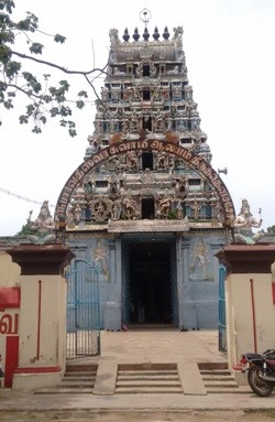 Tirutelicheryparvatheesvarar temple திருத்தெளிச்சேரிபார்வதீஸ்வரர்கோயில்